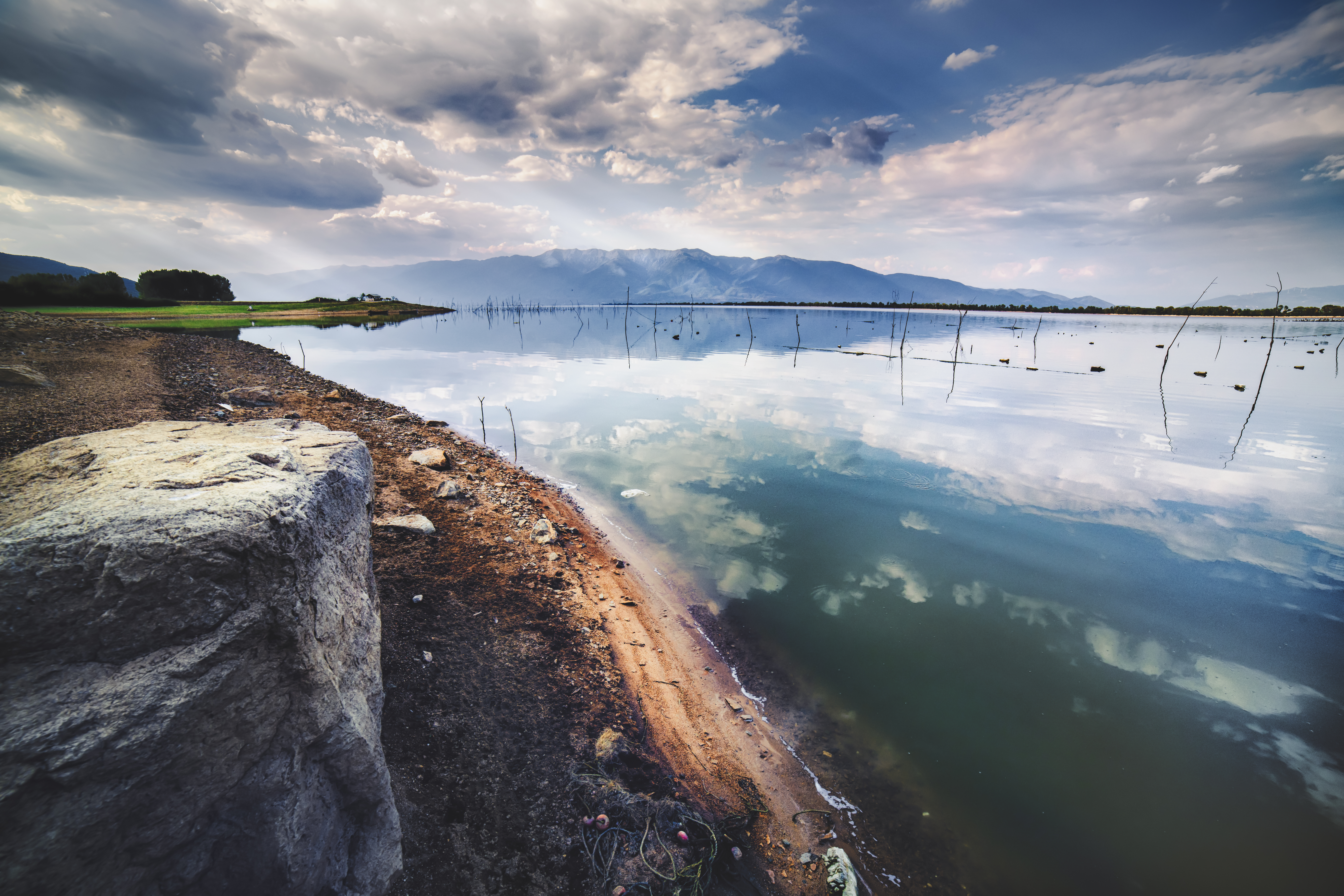 Lake Kerkini in Macedonia, Greece This is a photography of Natura 2000 protected area with ID GR1260001